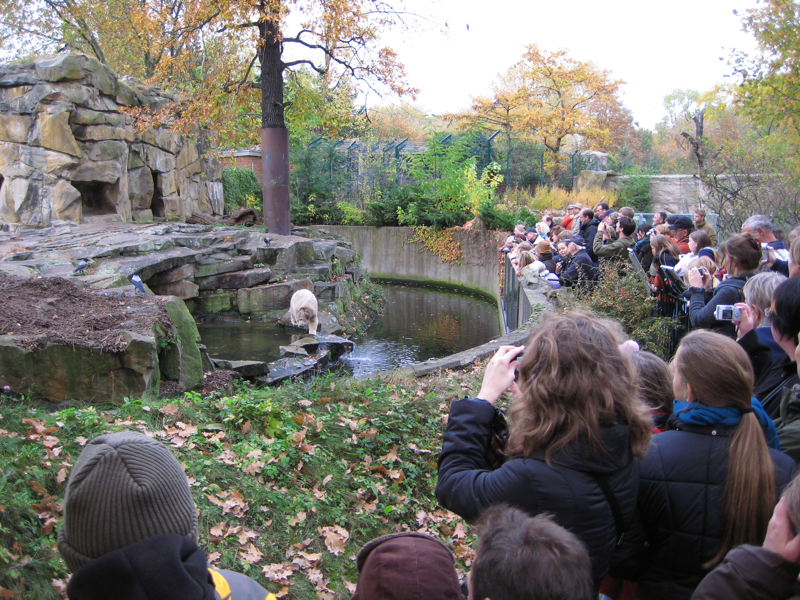 Polar bear Knut at the age of 10 months (Zoo of Berlin)